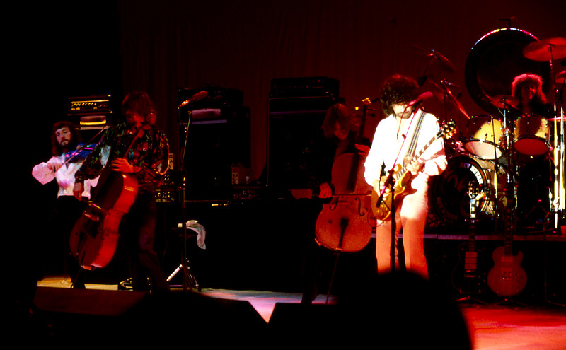 Electric Light Orchestra, Ekeberghallen, Oslo, Norway